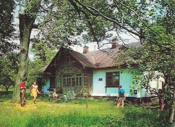 Memorial House of Mihail Sadoveanu, Fălticeni, Suceava County, Romania (old postcard).